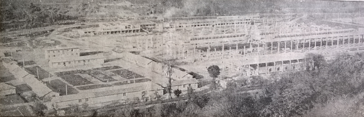 Television factoy in Veliko Tarnovo,Bulgaria